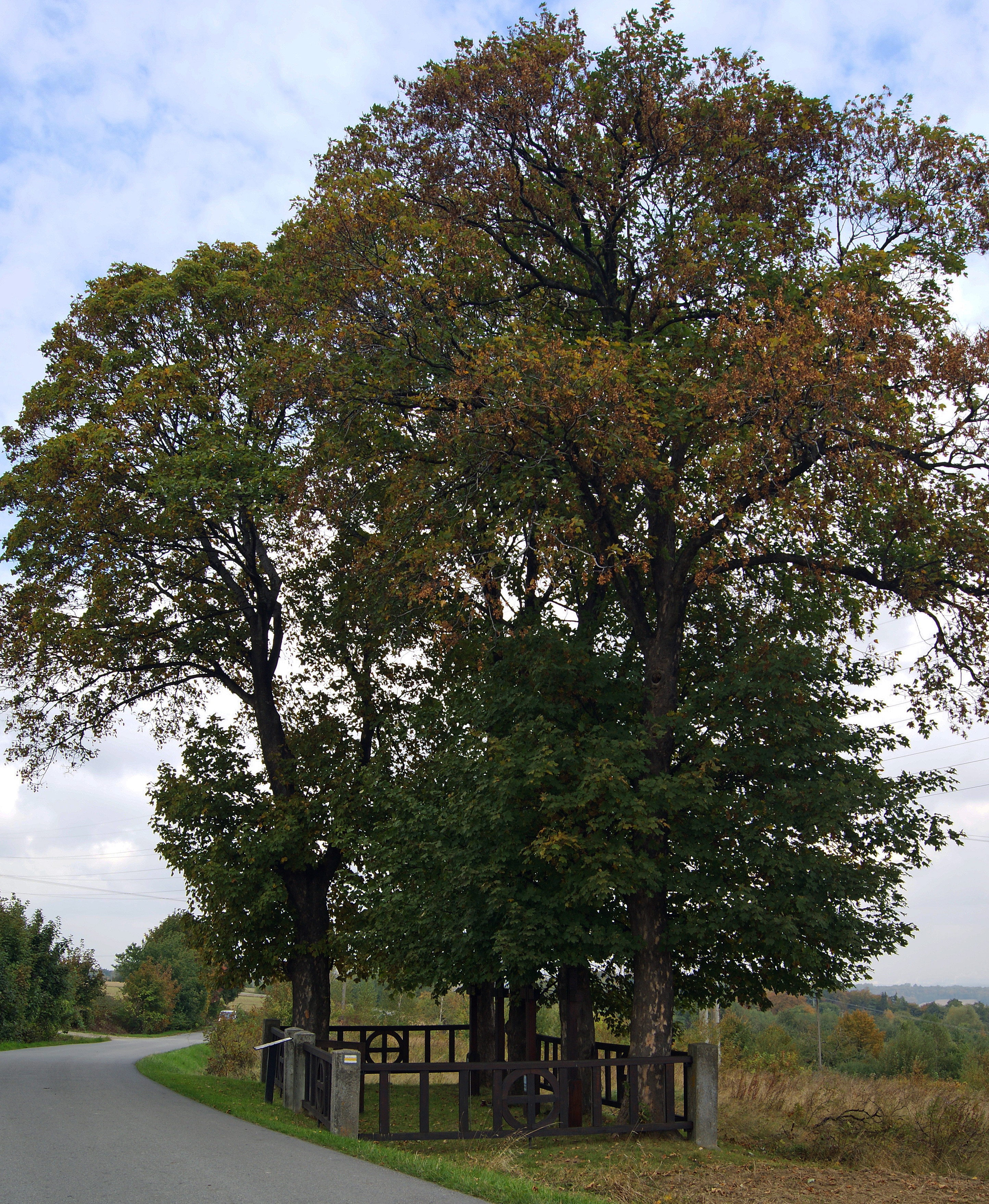 WWI, Military cemetery No. 188 Rychwałd, Rychwałd village, Tarnów county, Lesser Poland Voivodeship, Poland